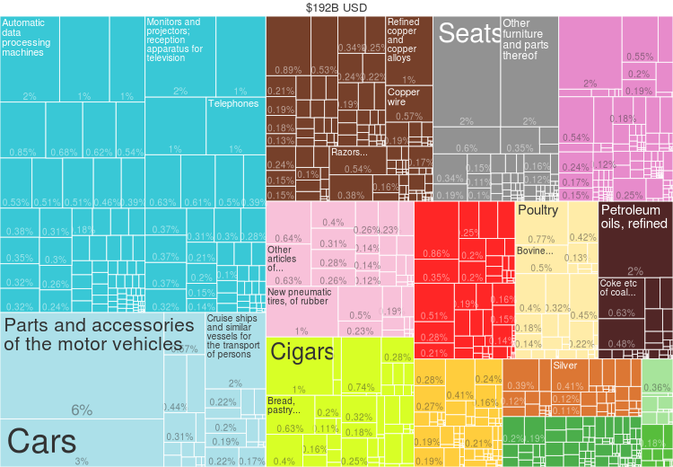 2014 Poland Products Export Treemap